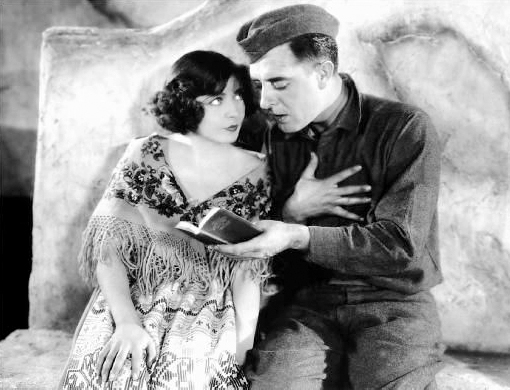 Promotional photograph for the film The Big Parade (1925) starring John Gilbert and Renée Adorée